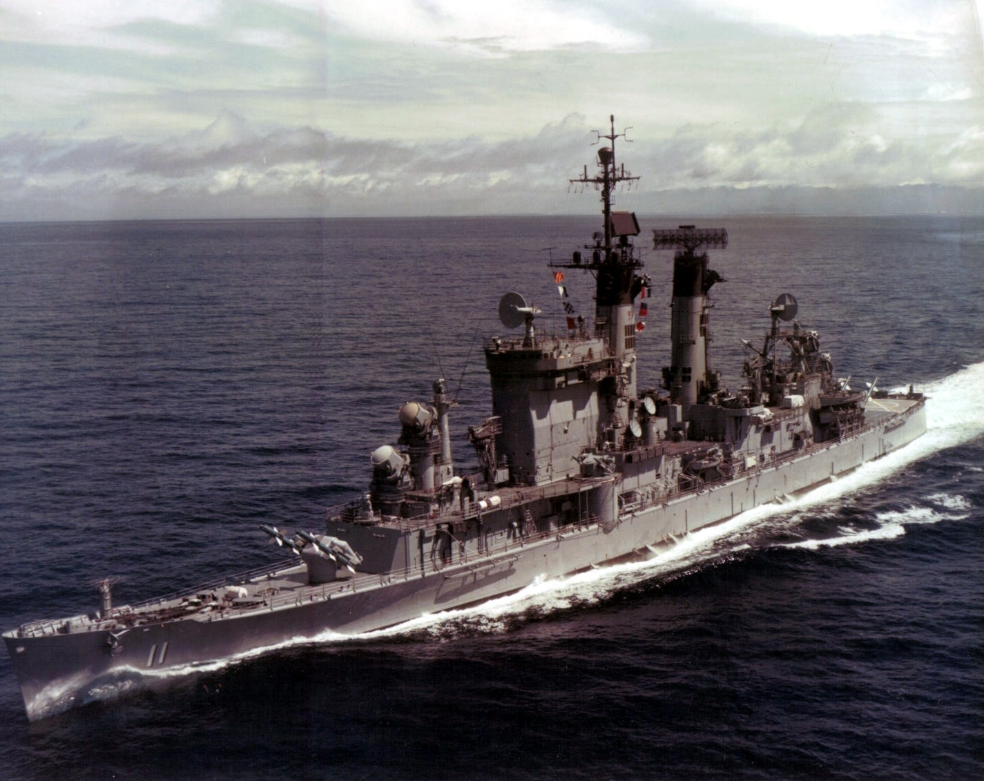 The U.S. Navy guided missile cruiser USS Chicago (CG-11) underway in the early 1970s.